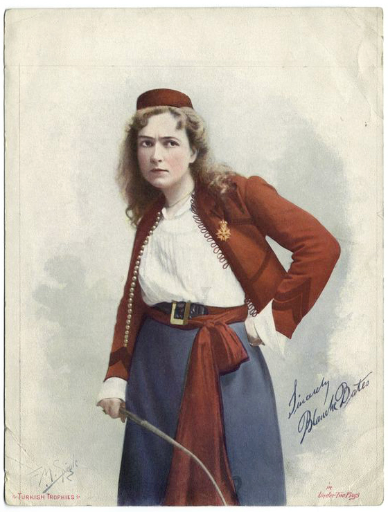 Cigarette card featuring actress Blanche Bates as Cigarette in the 1901 Broadway production of Under Two Flags. Distributed by American Tobacco Company to promote Turkish Trophy cigarettes.Reproduction of a painting.